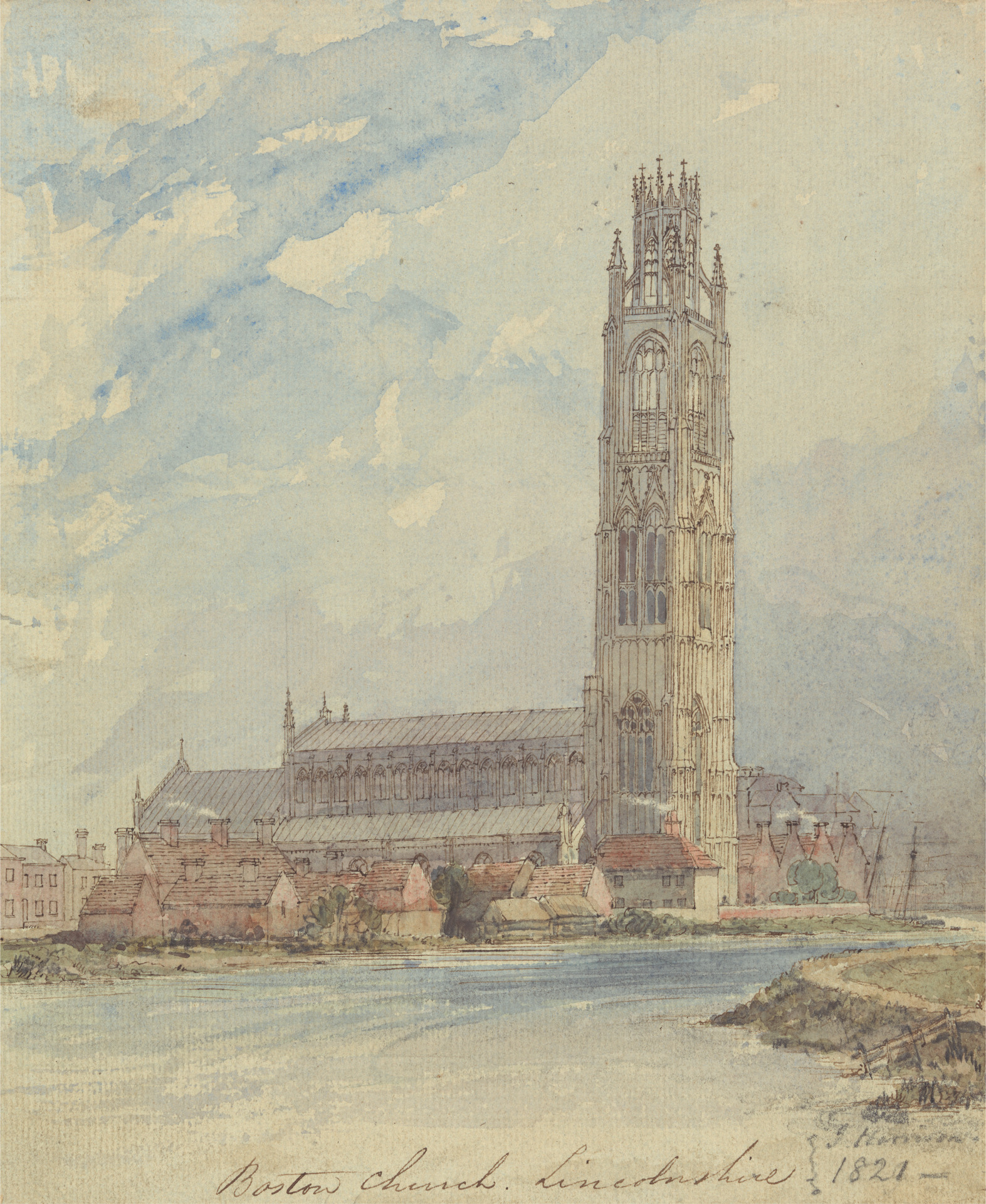 "Boston Church, Lincolnshire," by James Harrison (1814-1866), watercolour and pen and brown ink on laid paper. Dated 1821. 8 1/2 in. x 7 in. (21.6 cm x 17.8 cm). Courtesy of the Paul Mellon Collection, Yale Center for British Art, Yale University, New Haven, Connecticut.